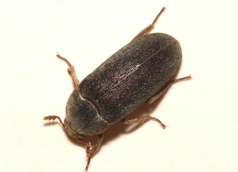 Dermestes haemorrhoidalis. Location: The Netherlands - Rhenen - Blauwe Kamer